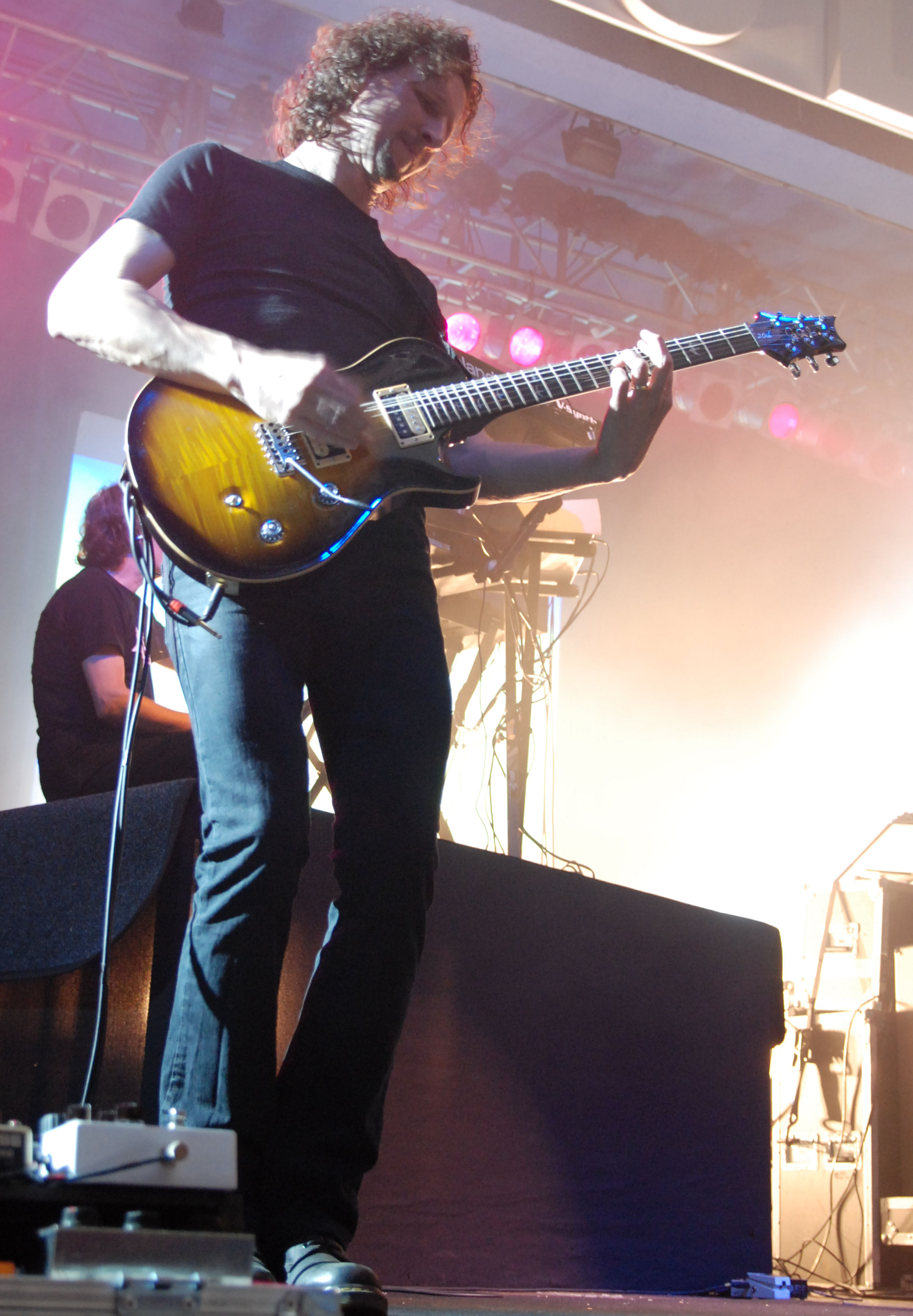 John Wesley from Porcupine Tree during concert in TS Wisła in Kraków To zdjęcie powstało dzięki współpracy z Rock-Servis